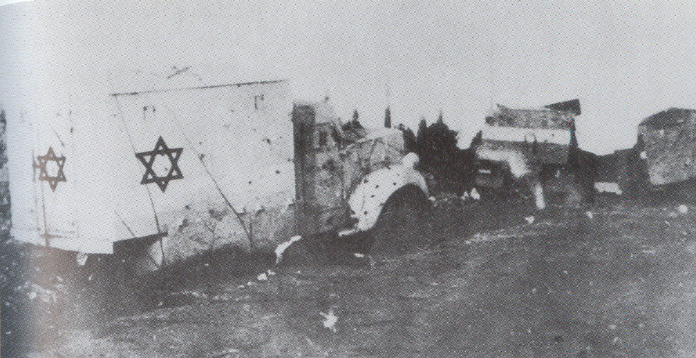 Aftermath of attack on Haddasah convoy, 13 April 1948